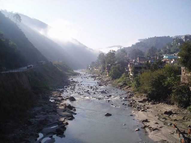 River Beas at Mandi, Himachal Pradesh, India